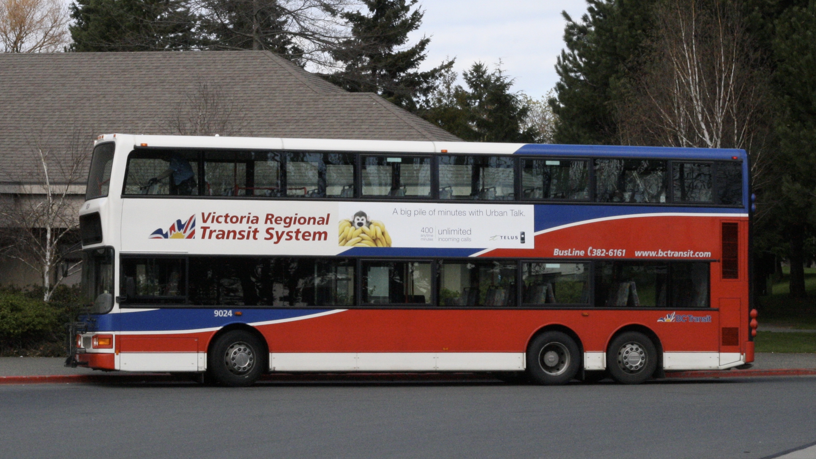 Double-Decker Bus at UVic